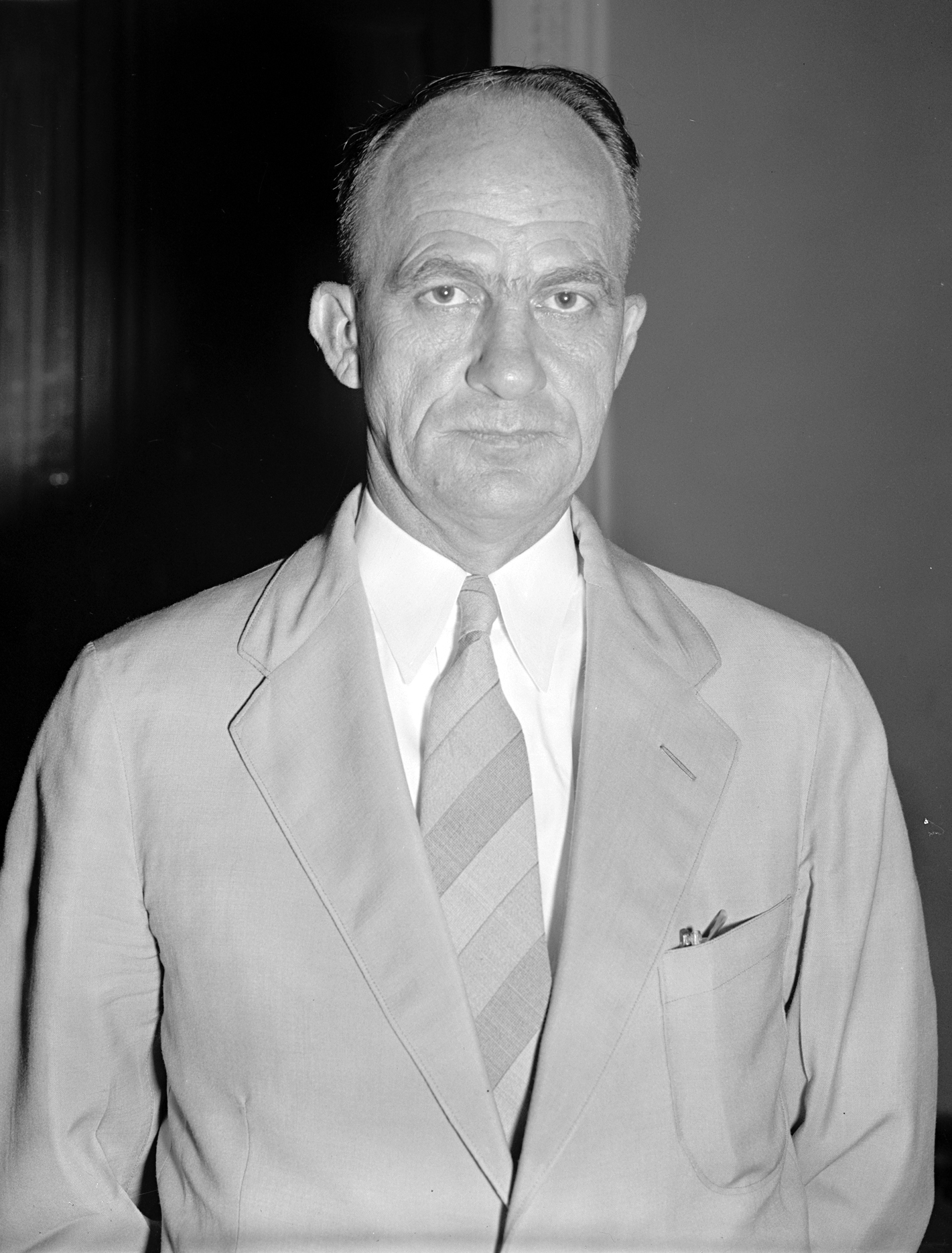 Stephen Pace, US Representative from Georgia